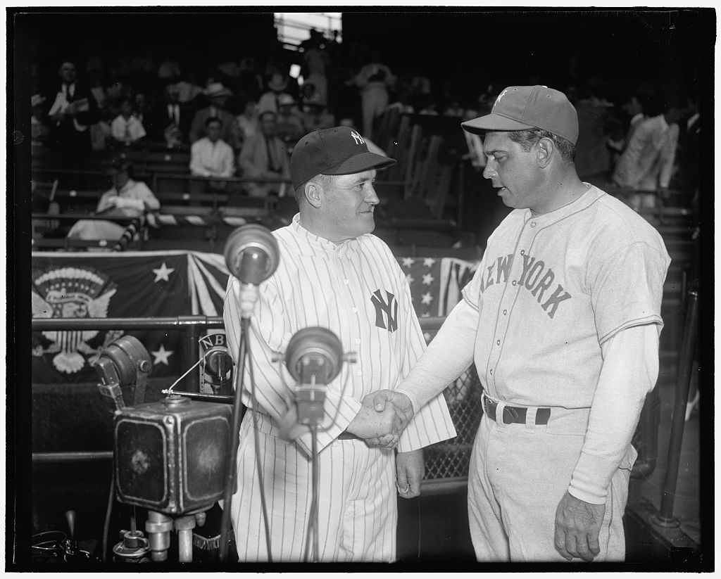 Library of Congress metadata: Title: Rival All-Star managers. Washington D.C., July 7. Joe McCarthy, manager of American All-Stars, and Bill Terry, leaders of the Nationals, pose before their respective teams took the field today for the 1937 game at Griffith Stadium. The Americans triumphed 8-3, 7/7/37 Creator(s): Harris & Ewing, photographer Date Created/Published: 1937 July 7. Medium: 1 negative : glass ; 4 x 5 in. or smaller Reproduction Number: LC-DIG-hec-22987 (digital file from original negative) Rights Advisory: No known restrictions on publication. Call Number: LC-H22- D-1884 [P&P] Repository: Library of Congress Prints and Photographs Division Washington, D.C. 20540 USA Notes: Title from unverified caption data received with the Harris & Ewing Collection. Gift; Harris & Ewing, Inc. 1955. General information about the Harris & Ewing Collection is available at Temp. note: Batch four. Subjects: United States--District of Columbia--Washington (D.C.) Format: Glass negatives. Collections: Harris & Ewing Collection Part of: Harris & Ewing Collection (Library of Congress) Bookmark This Record